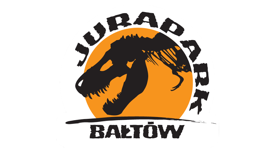 Logo JuraParku w Bałtowie